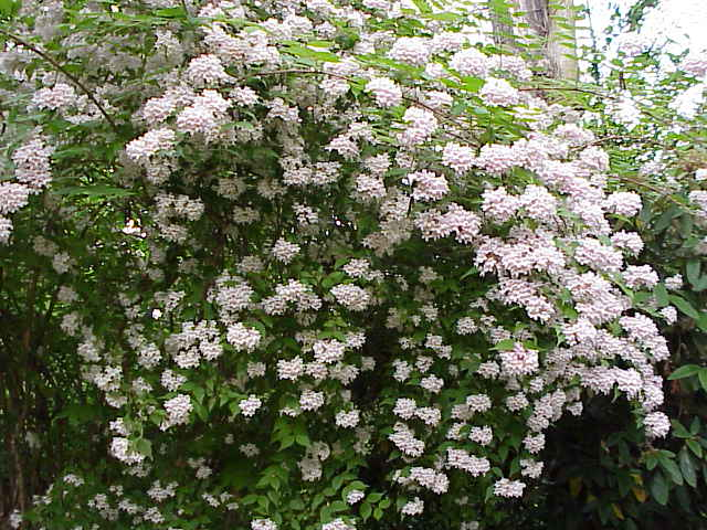 Species: Kolkwitzia amabilis Family: Caprifoliaceae Image No. 3